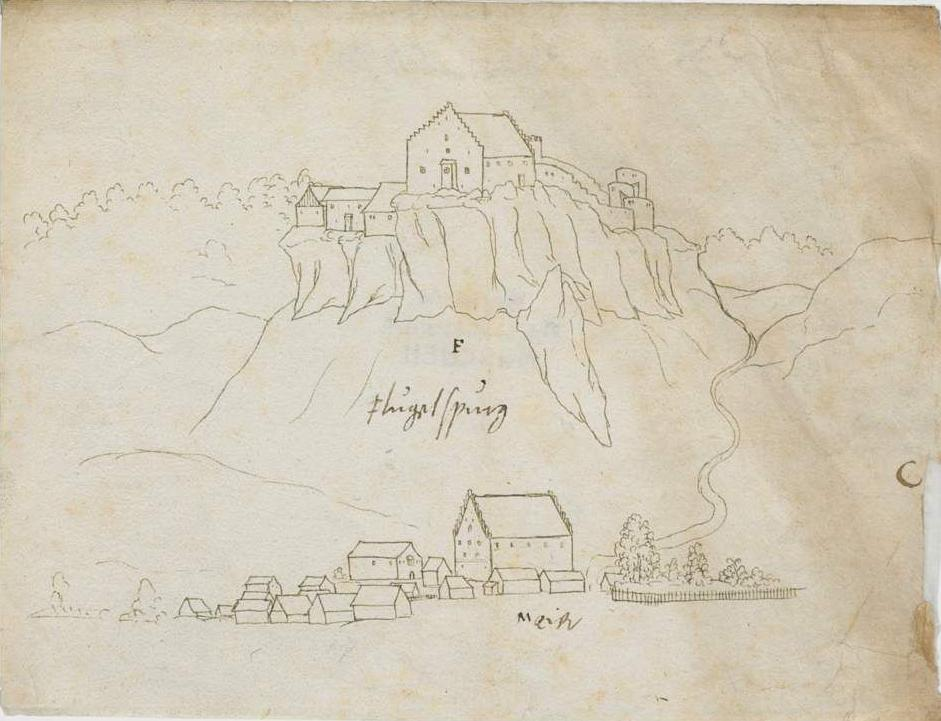 Drawing of the castle Flügelsburg in bavaria